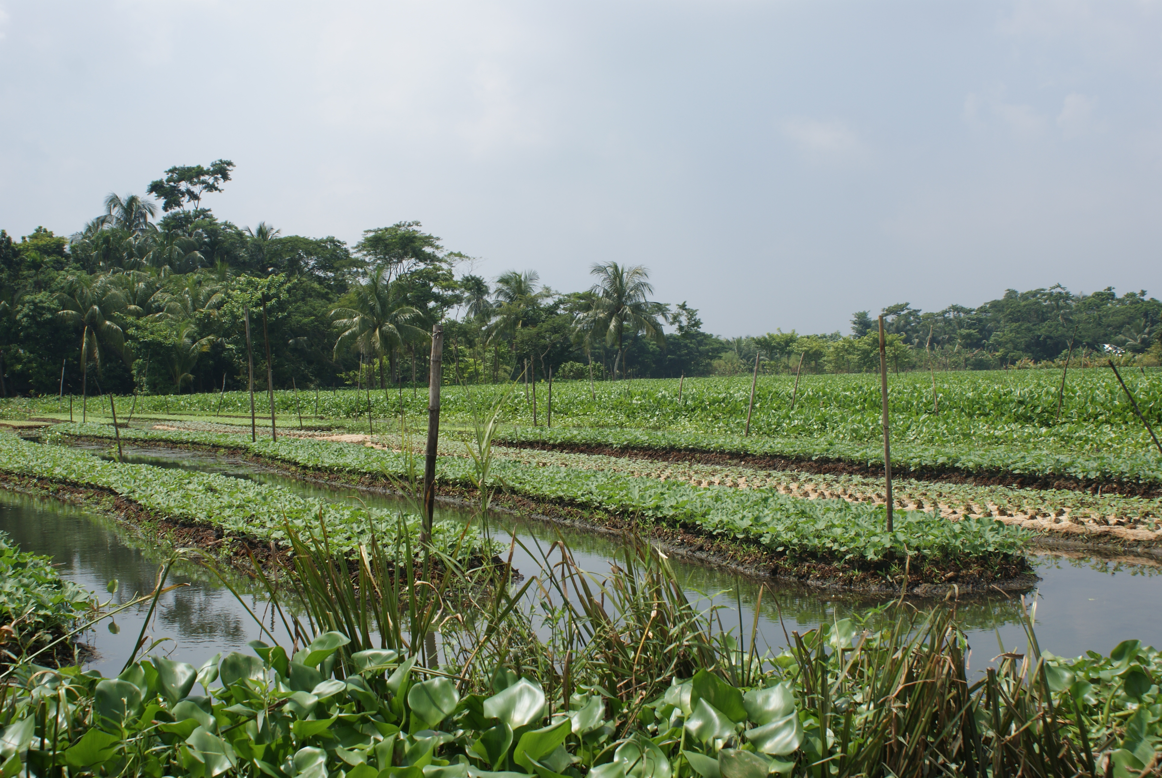 This picture is showing floating cultivation practices in naturally water-logged and low lying area of Barisal and Pirojpur district of Bangladesh. This is a very traditional method of agriculture farming in these areas as land is not available to cultivate for most of the time of the year. Floating beds are prepared using water hyacinth and multiple crops are grown on a single bed. This picture was taken from Baithakatha Village of Pirojpur District.